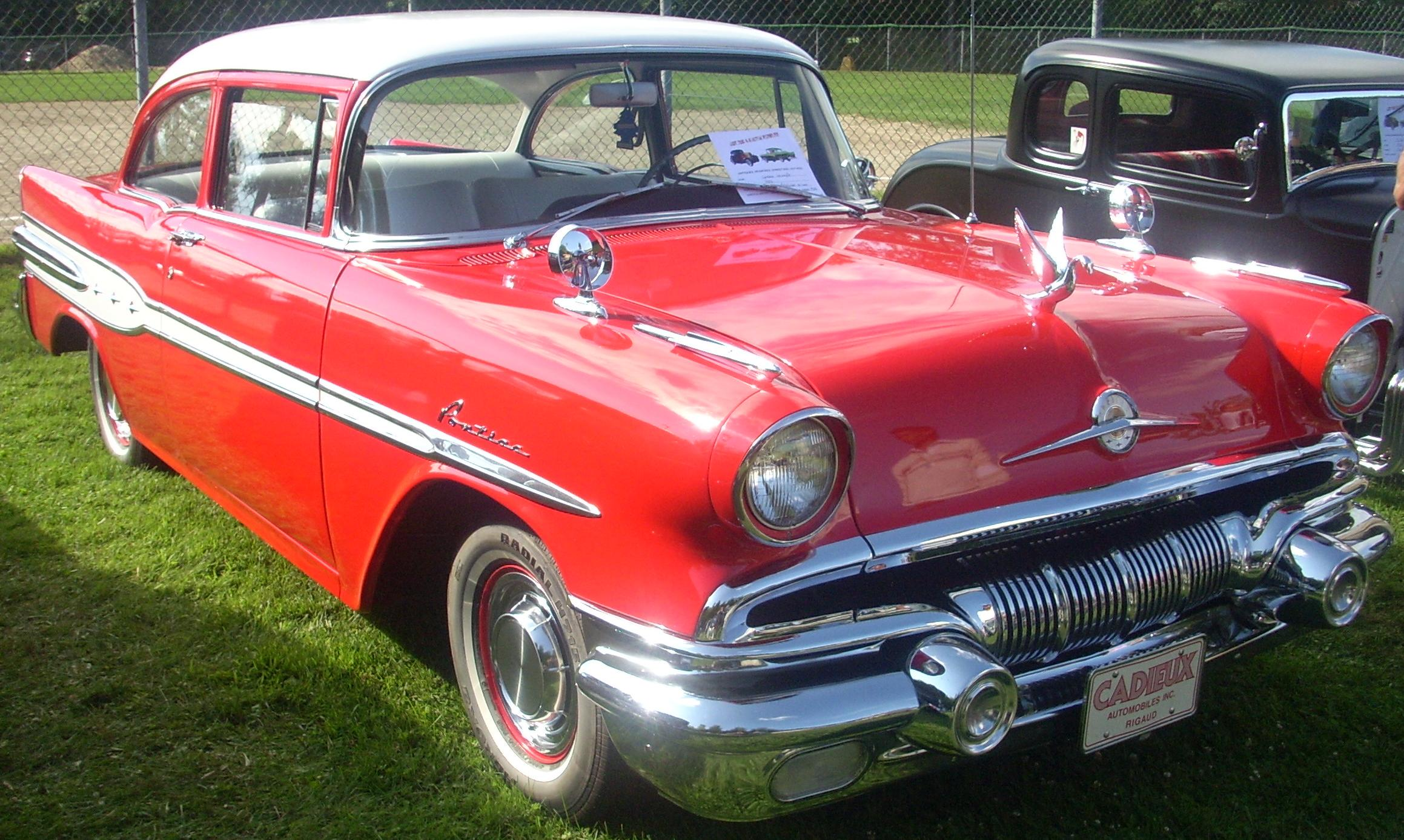 1957 Pontiac Pathfinder photographed at the Rassemblement Rigaud Car Show.